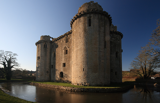 Nunney Castle (2)